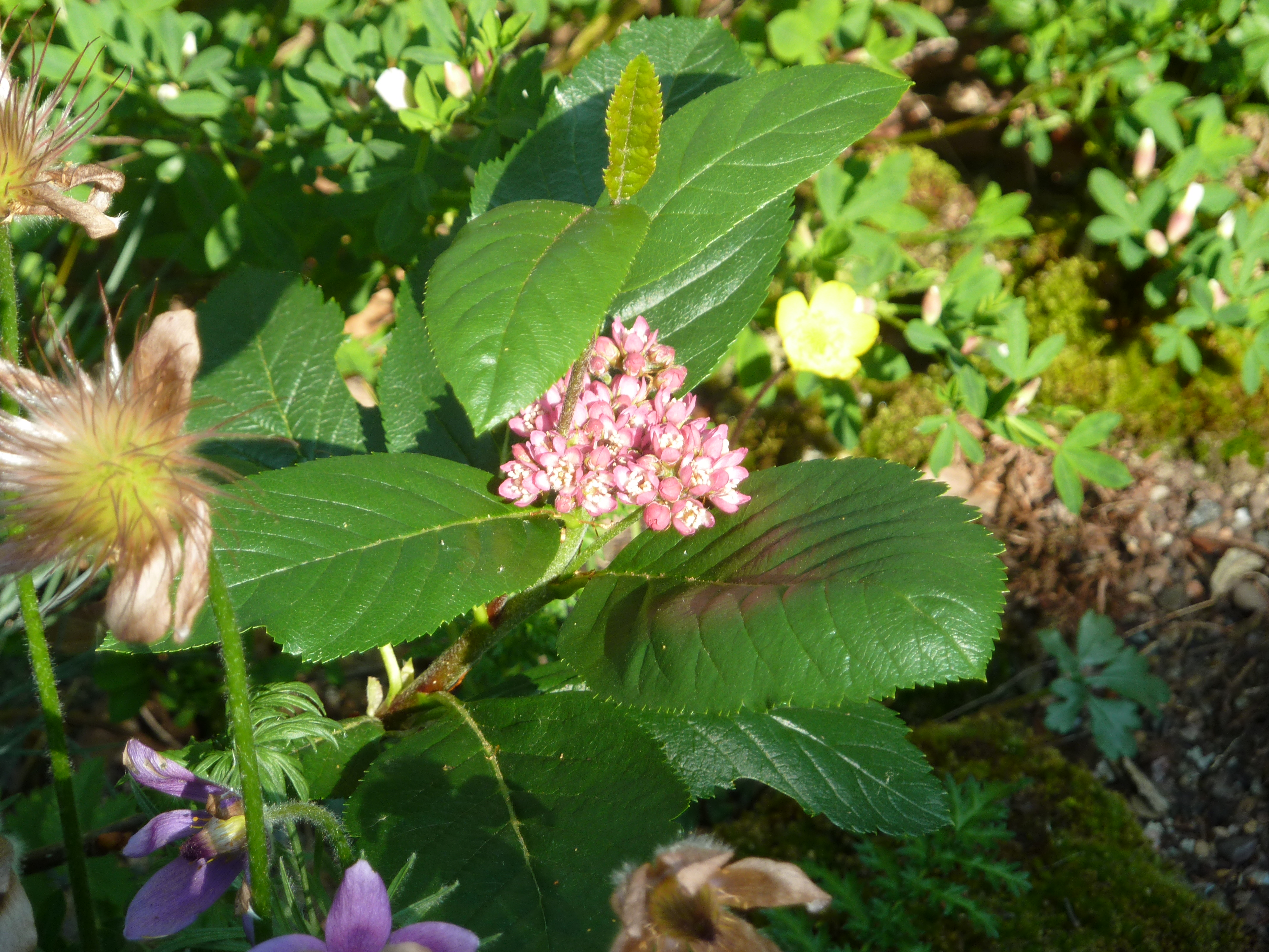 Previously known as Sorbus chamaemespilus - a really pretty small shrub.